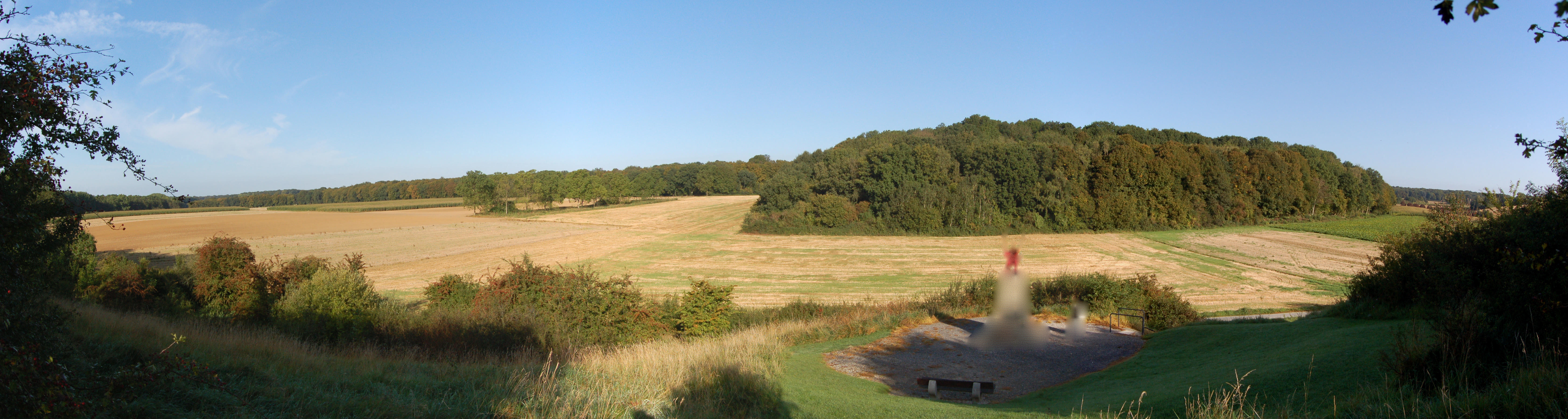 A composite image derived from three photos, taken from the ridge behind the memorial looking across the valley to the wood